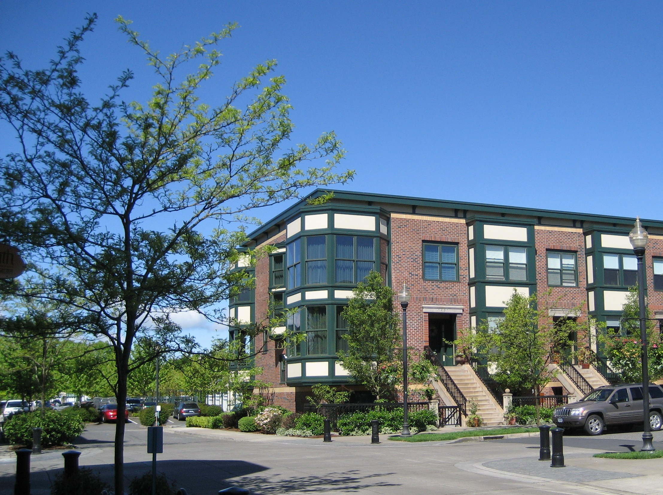 Orenco Station in Hillsboro, brownstones.